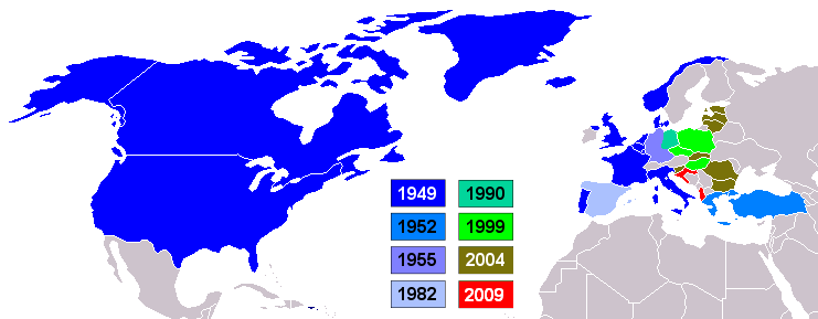 NATO member states by year of accession